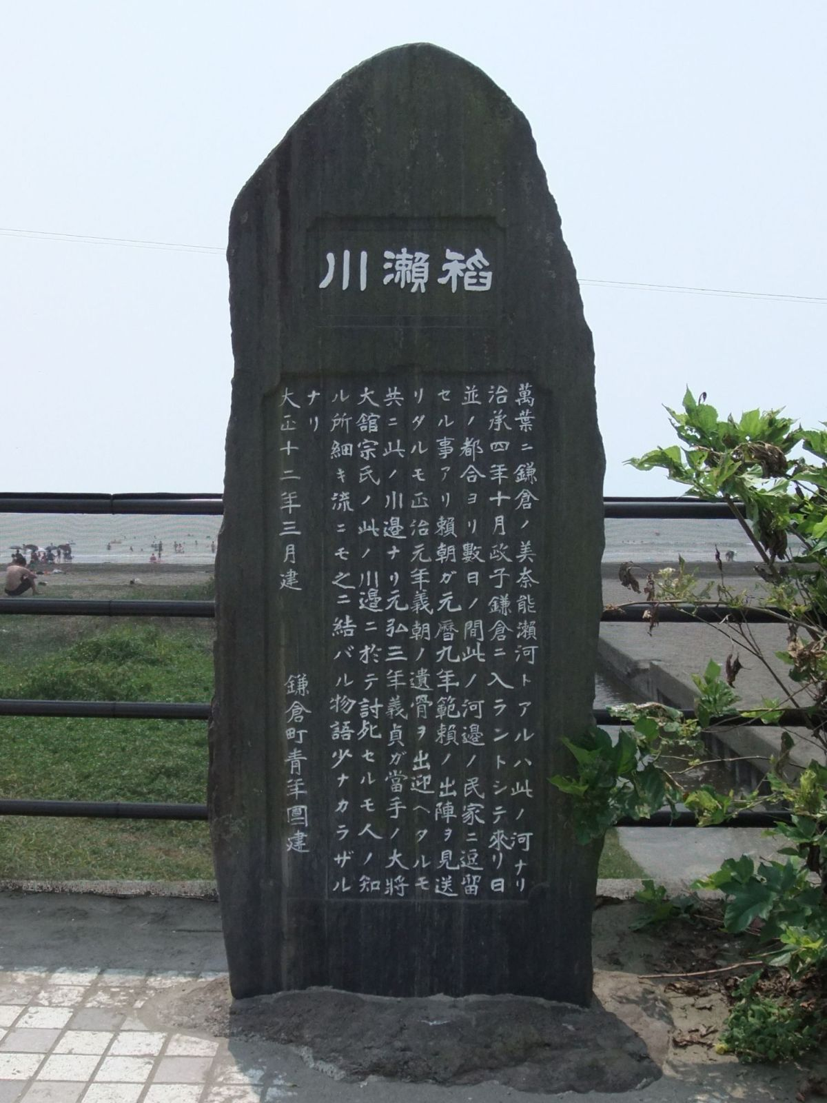 Stele of Inase-gawa river in Kamakura, Kanagawa.